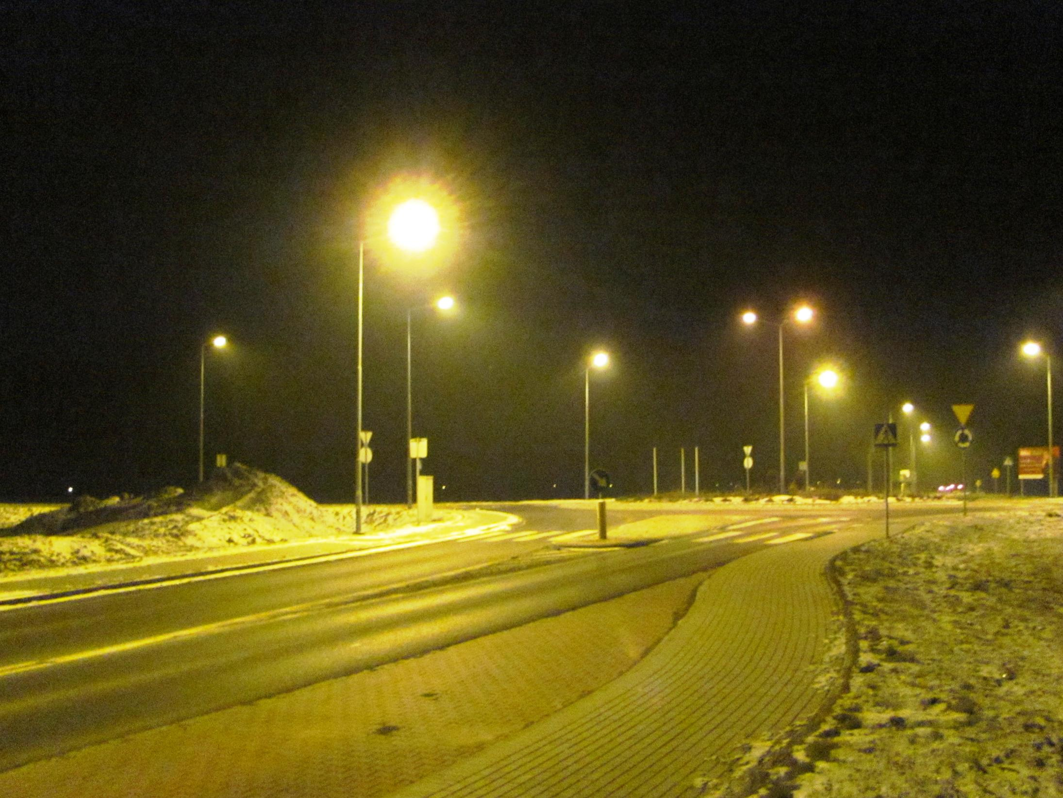 Roundabout in Wilamowice, Poland (ul.Starowiejska-ul.Paderewskiego). Intesively illuminated.